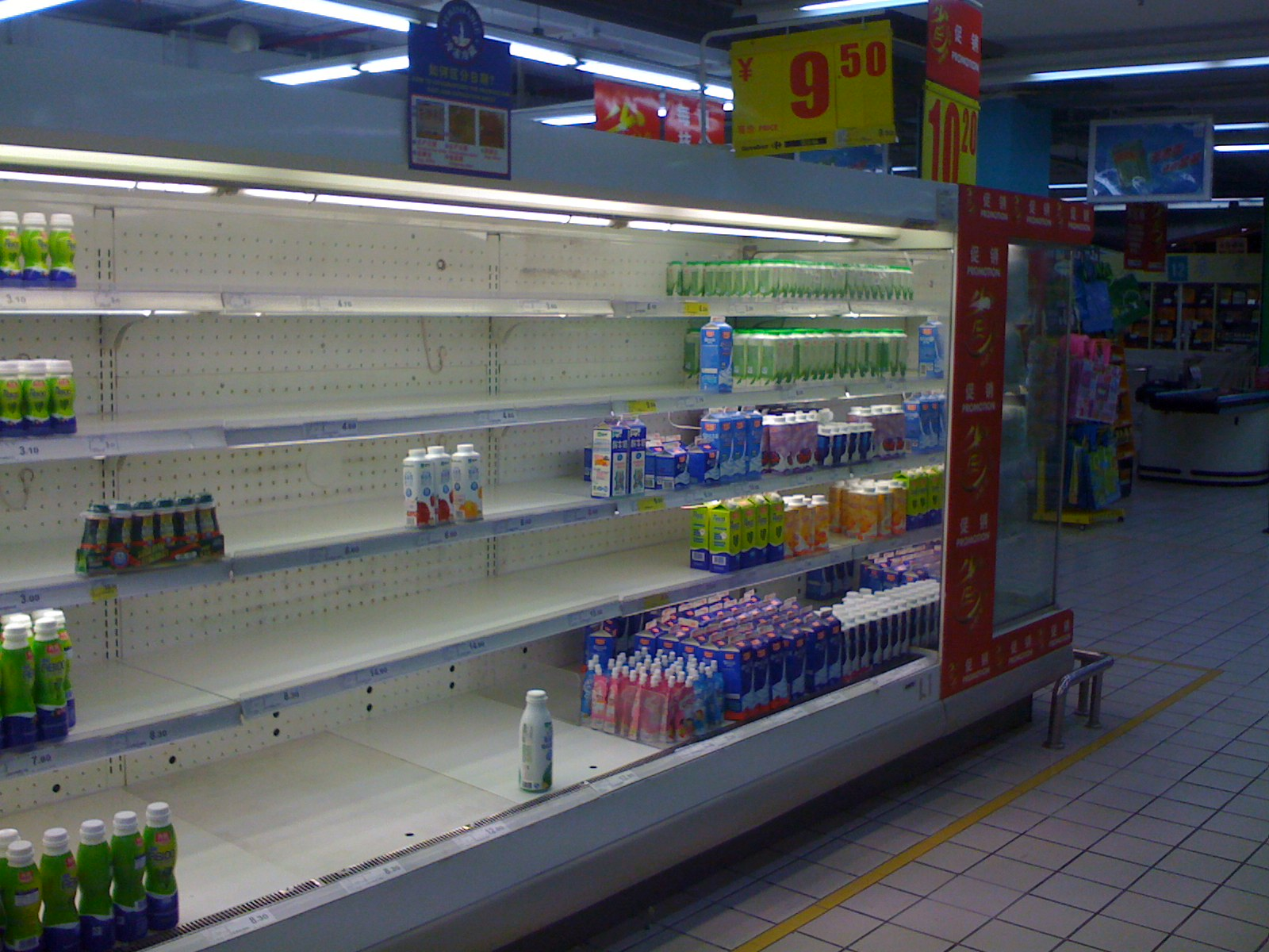 Empty milk and yogurt shelves in Carrefour in China. All Chinese brands seem to be banned in Chinese Carrefour stores because of the milk crisis. Chinese milk products are removed from a supermarket in China as a result of the melamine milk scandal.